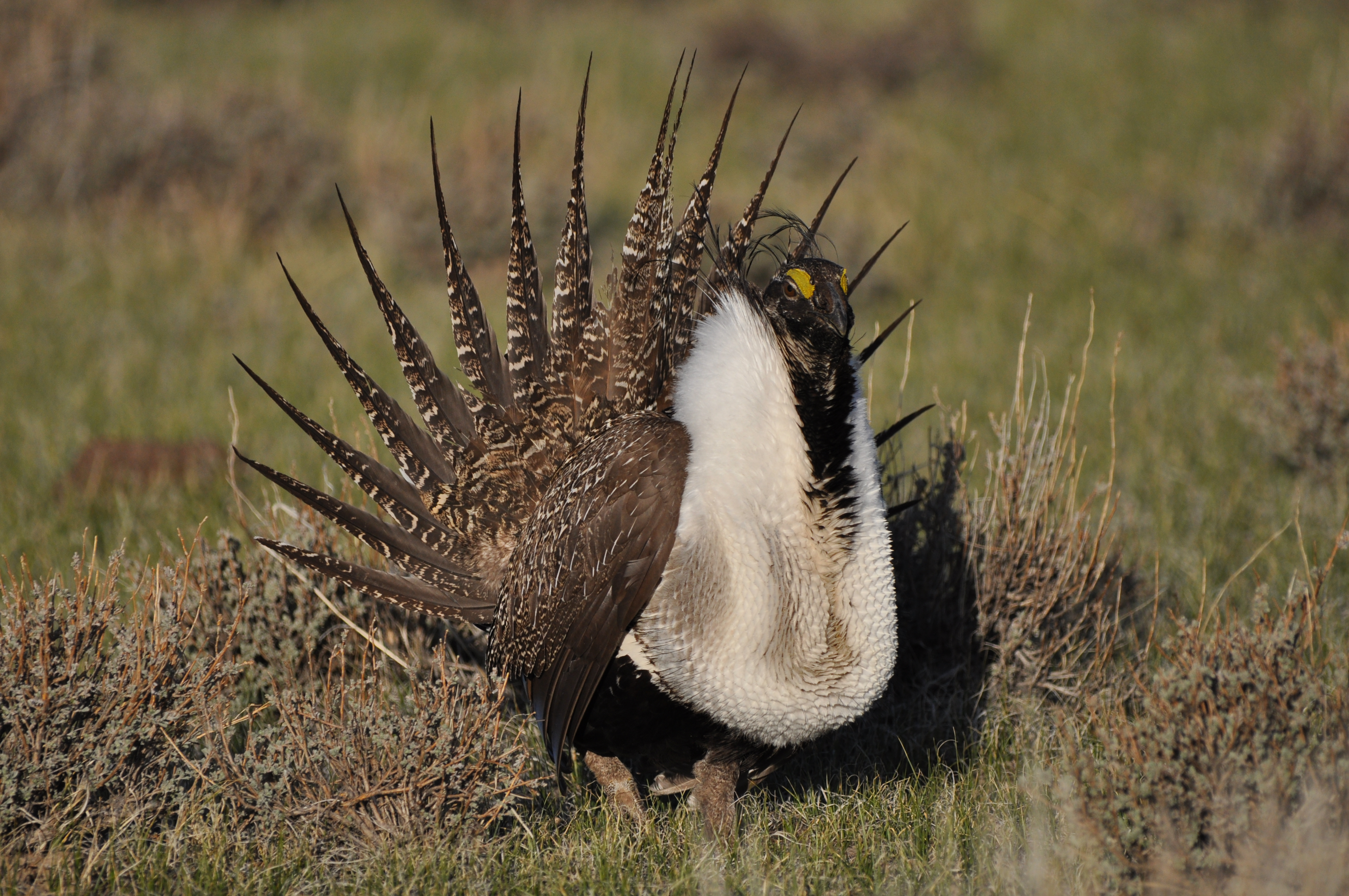 Photo Credit: Jeannie Stafford/USFWS A greater sage-grouse male struts at a lek (dancing or mating ground) near Bridgeport, CA to attract a mate.